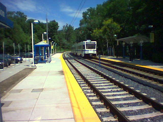 Northbound Baltimore Light Rail train leaving Mt. Washington Station